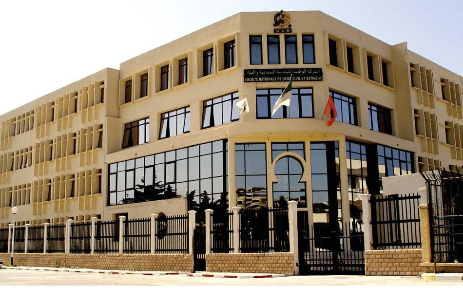 GCB Headquarter in Boumerdès (Algeria)